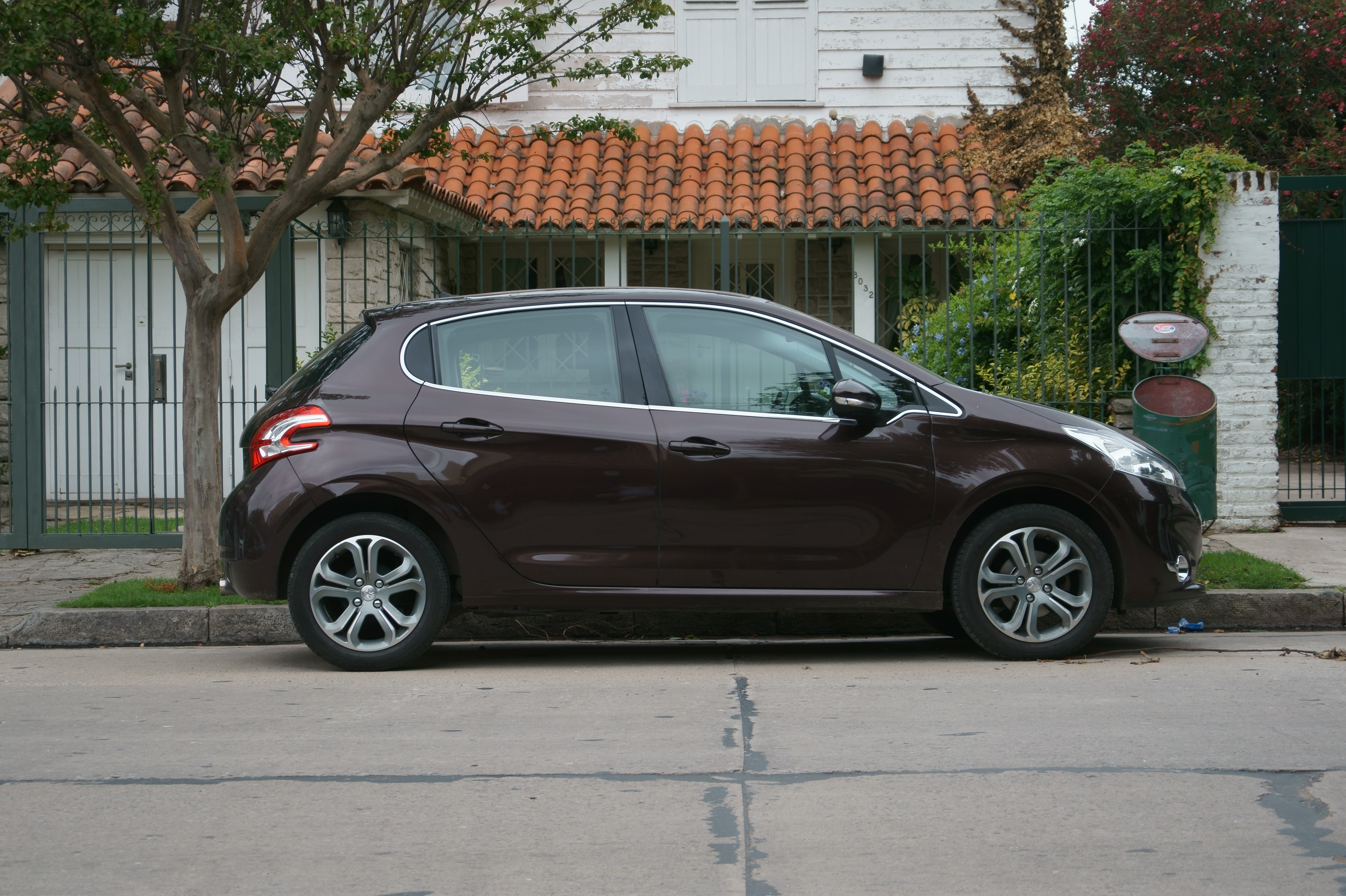 Peugeot 208 parked in Mar del Plata, Argentina